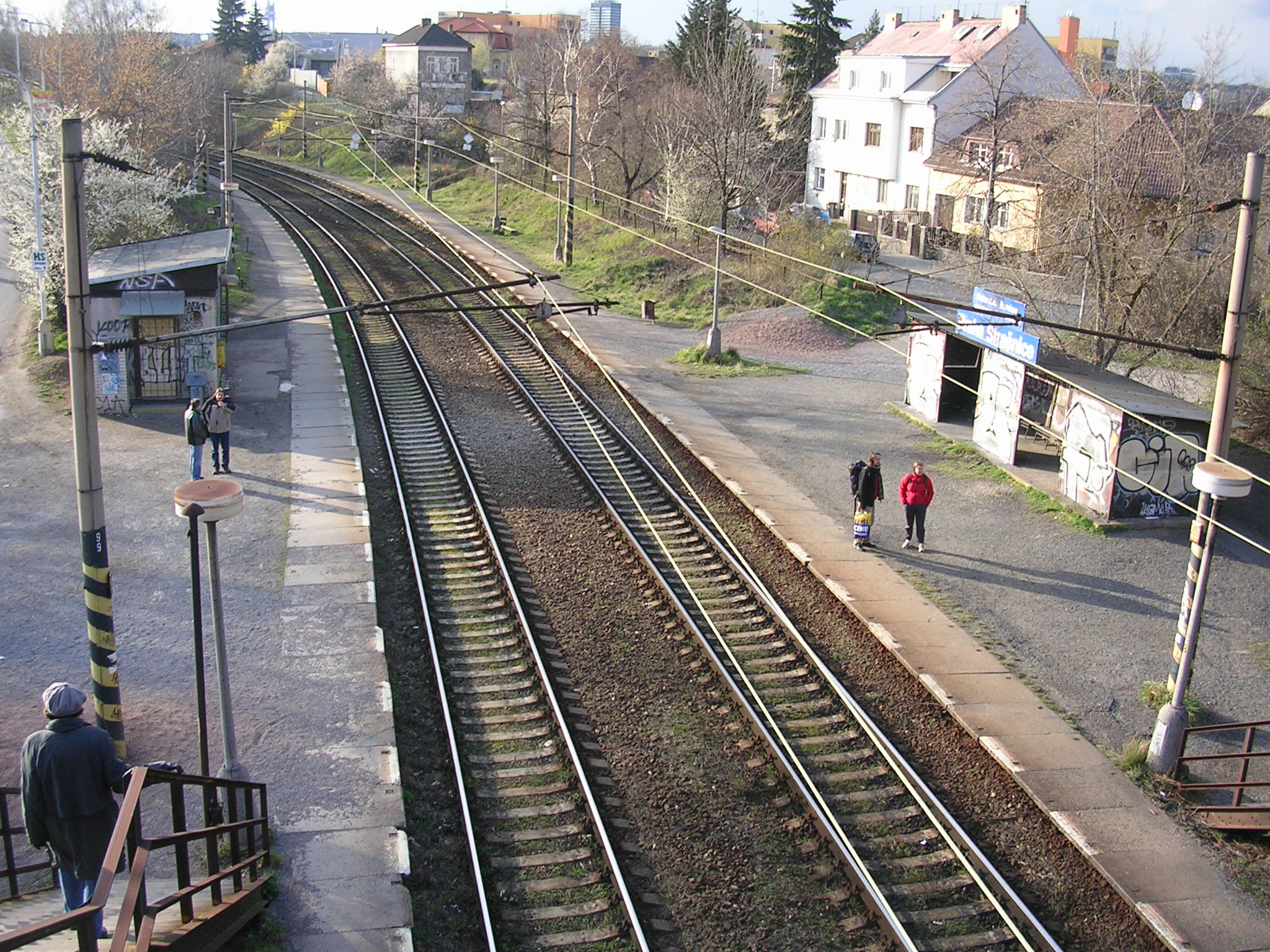 Train stop Praha-Strašnice zastávka, the Czech Republic.